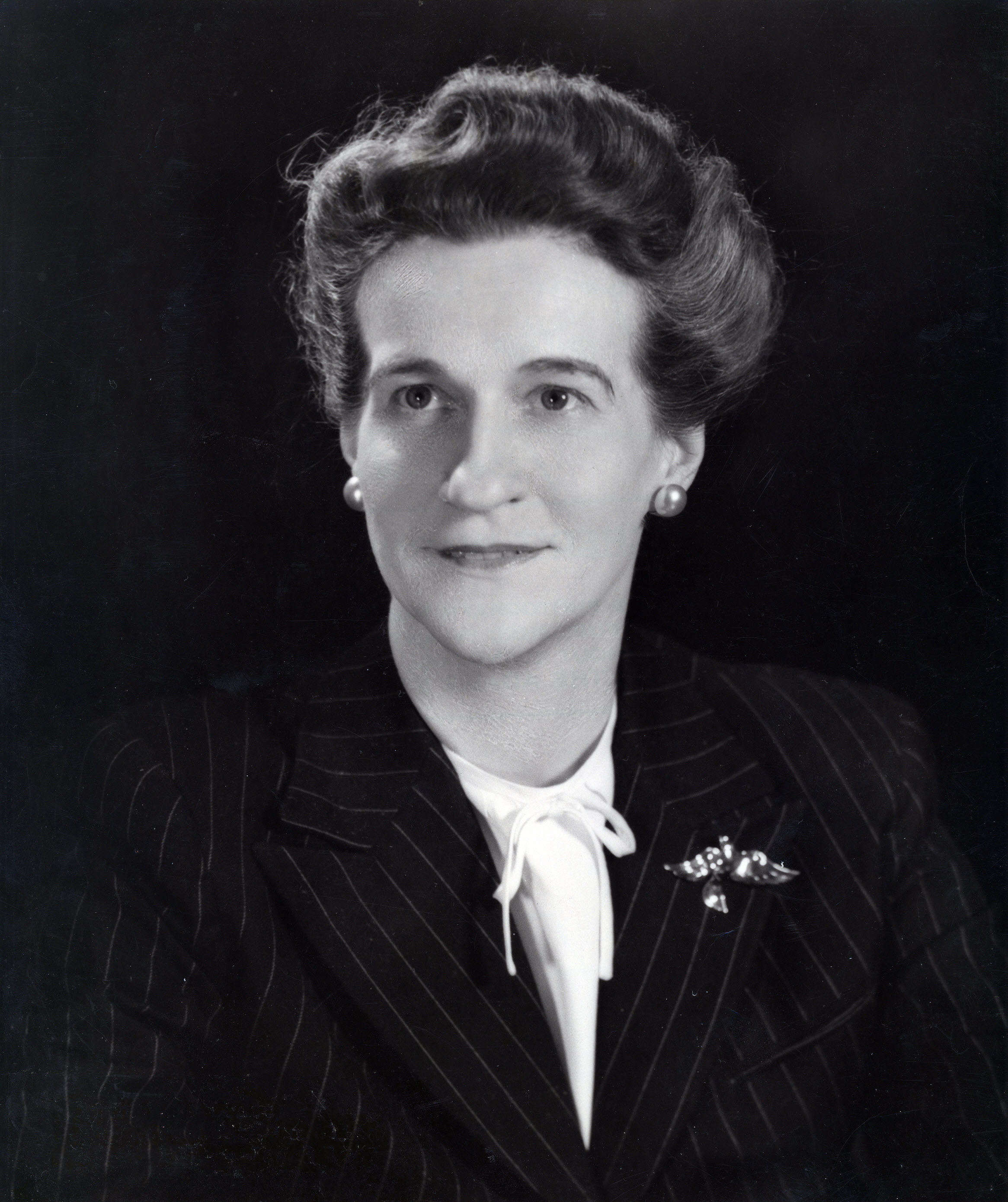 Former congresswoman Eliza Jane Pratt of North Carolina.